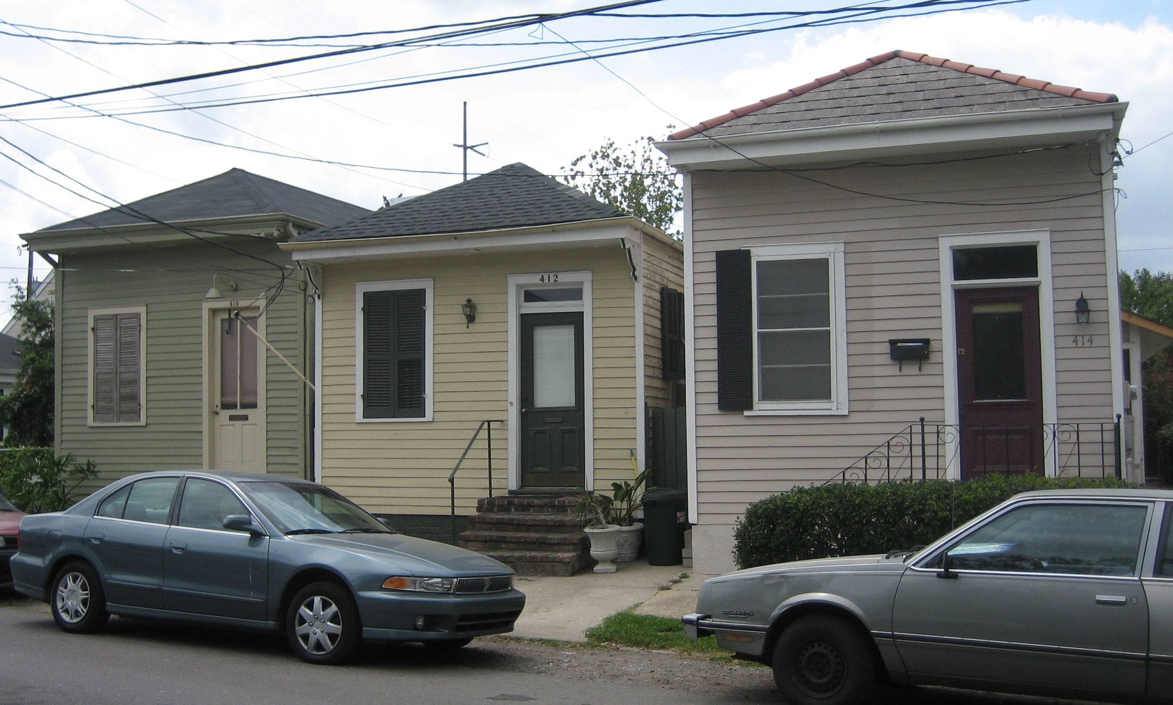 New Orleans: row of small "shotgun" style houses Uptown.